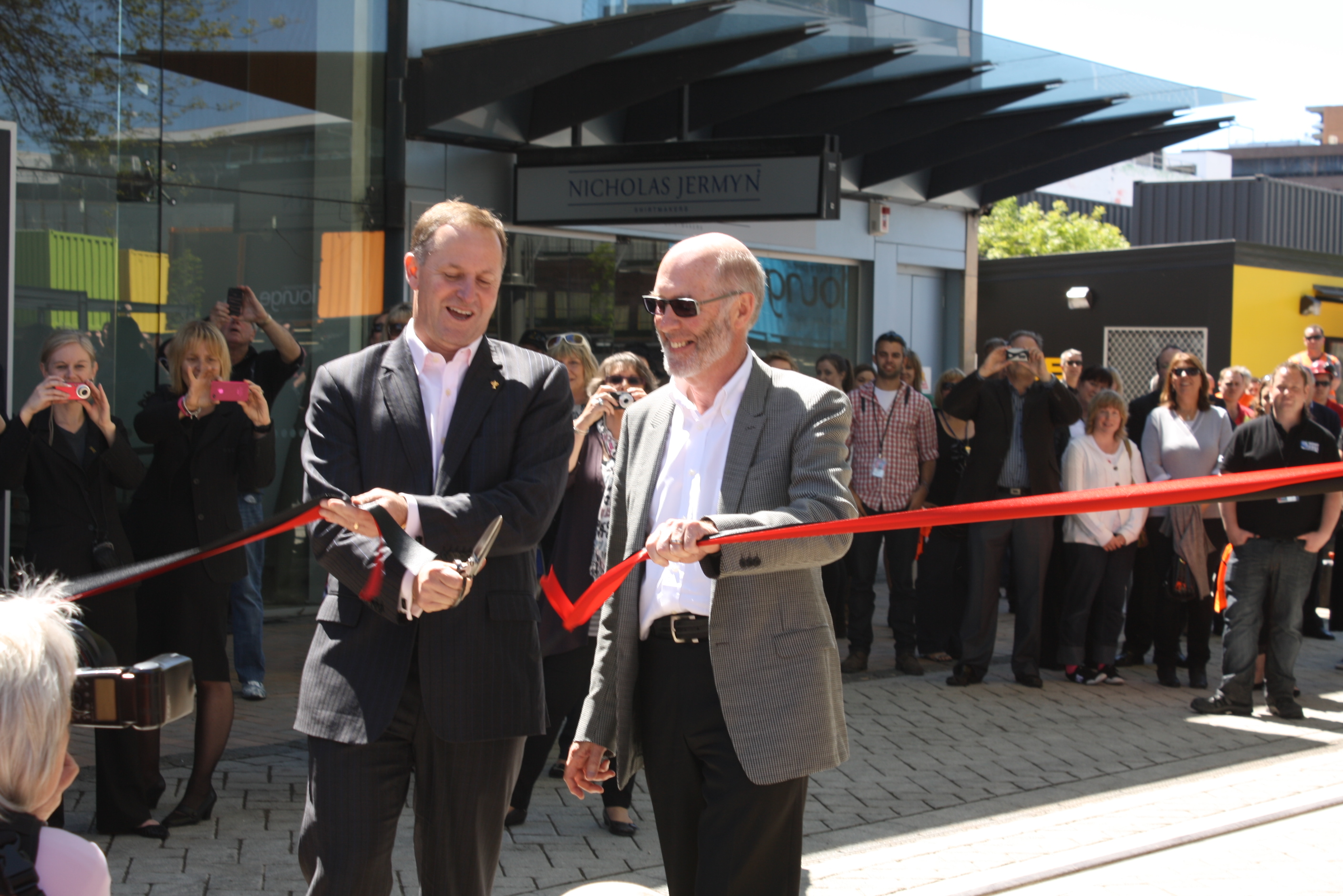 John Key and John Suckling reopening of City Mall in Christchurch on 29 October 2011.